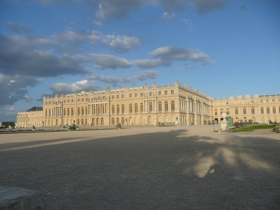 Palace of Versailles